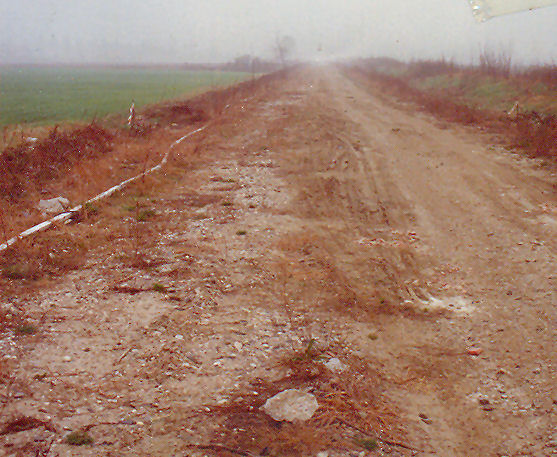 Campo di transito di Fossoli